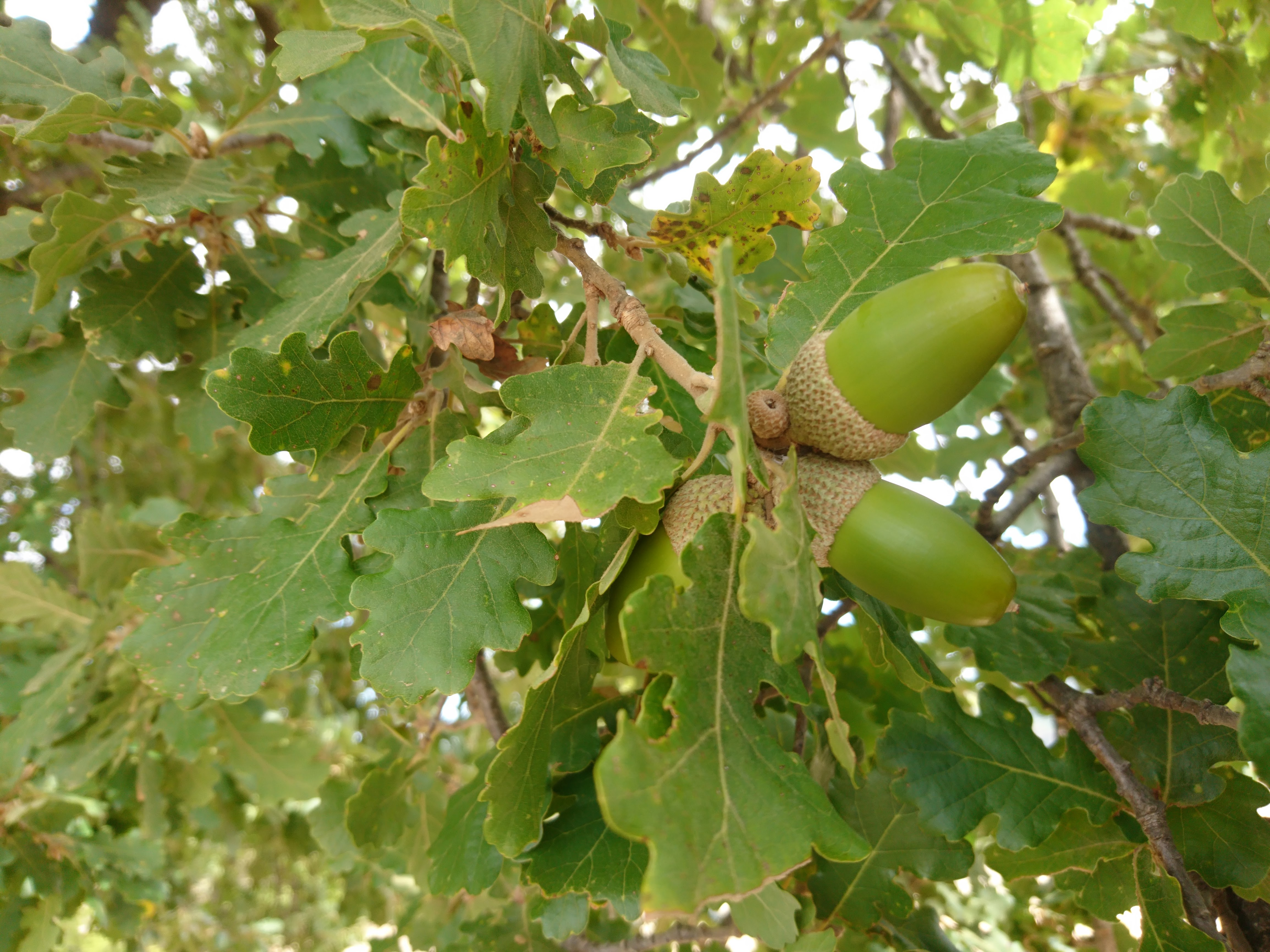 This is a photography of Natura 2000 protected area with ID GR2330002